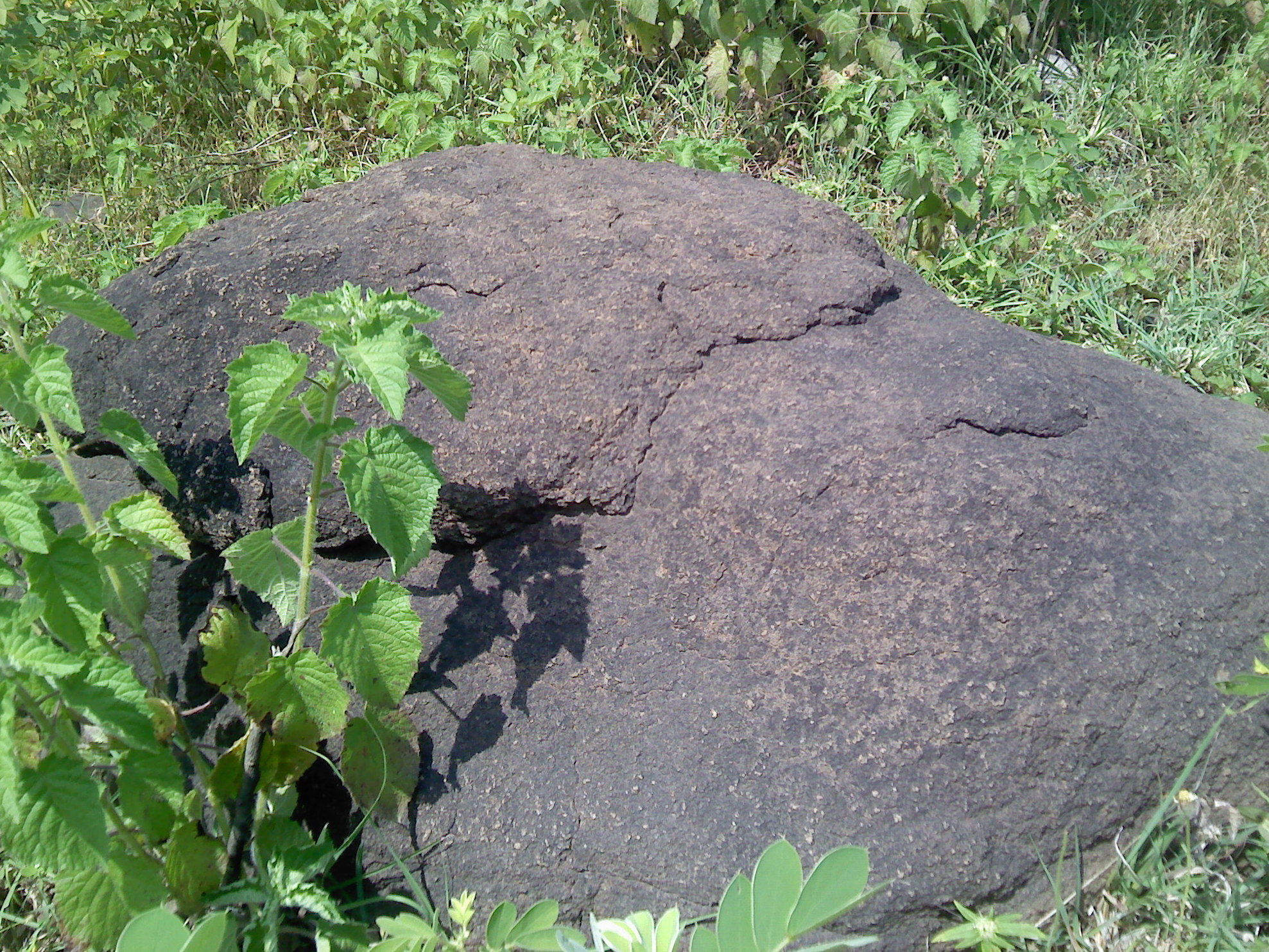 Closeup of a stone at Junapani stone circles.